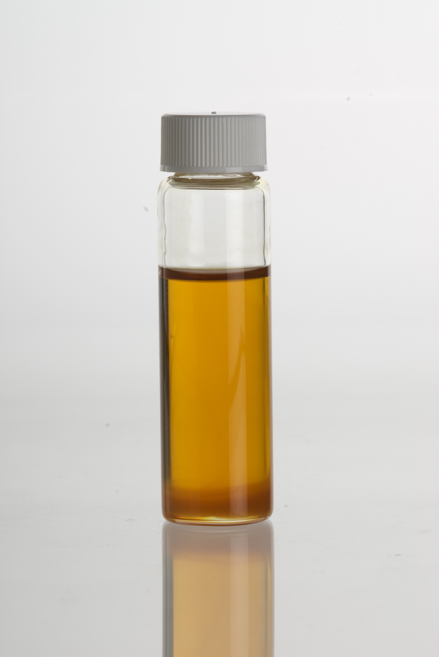 Myrrh (Commiphora myrrha) Essential Oil in clear glass vial